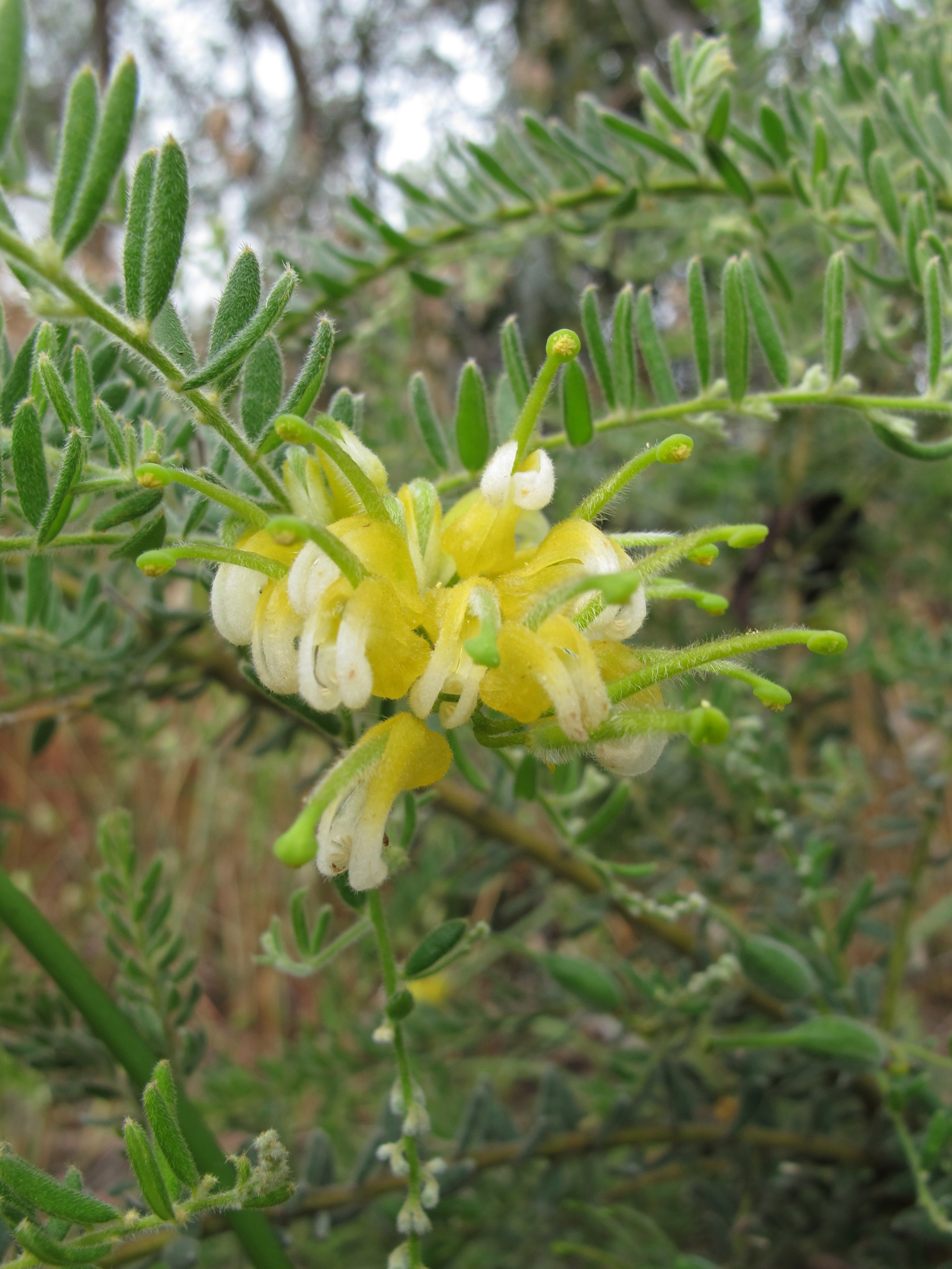 Grevillea alpina - Cat's Claws, Bendigo yellow variety